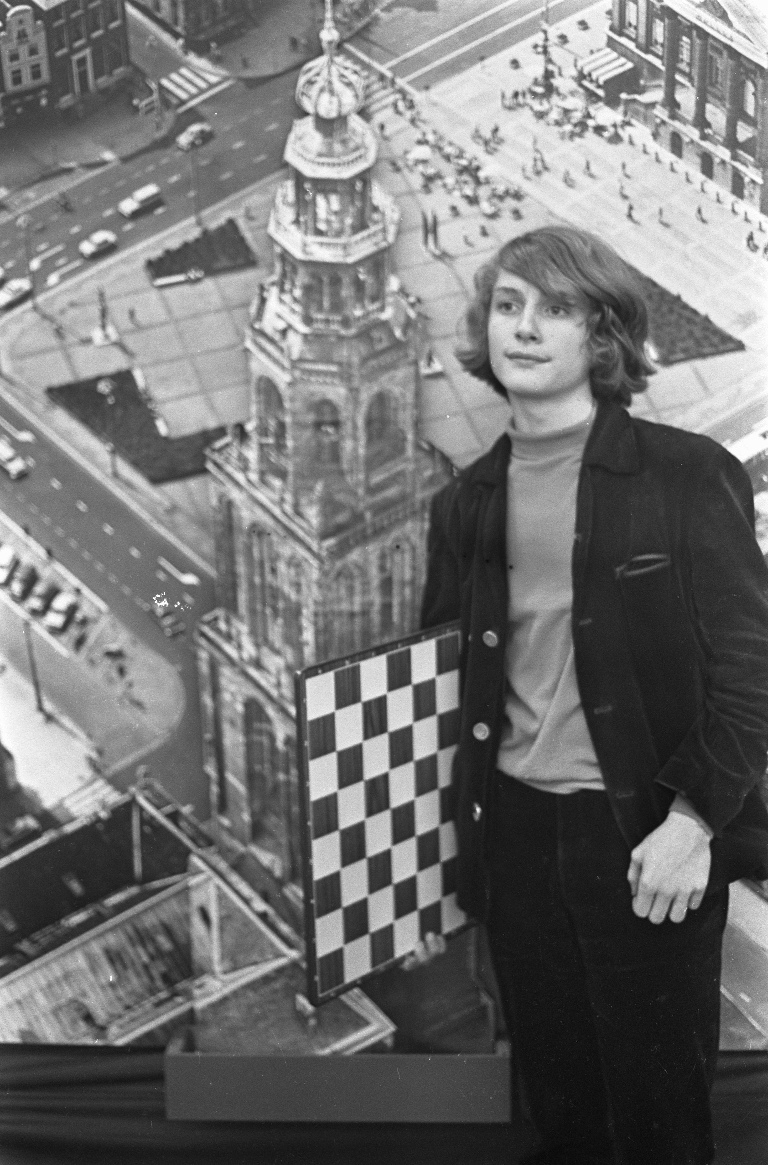 Jan Timman. Chess tournament Groningen (Niemeyer)